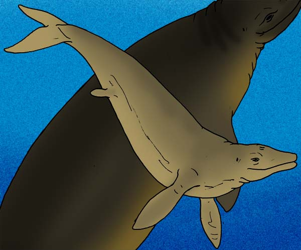 My reconstruction of the late Eocene whale Zygorhiza kochii (C) Stanton F. Fink